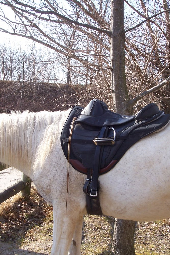 A modern saddle without a tree ("treeless saddle")